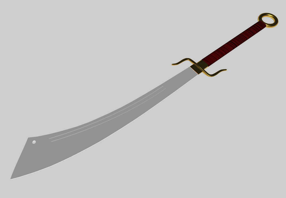 3D model of two-handed Chinese saber (dadao, 大刀)